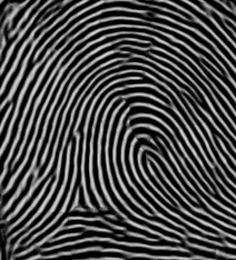 Gabor enhance dactylography image